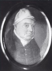 Early oil painting of Isaac Gulliver by Thomas Gosse (1765-1844), an itinerant miniature painter of the early nineteenth century.